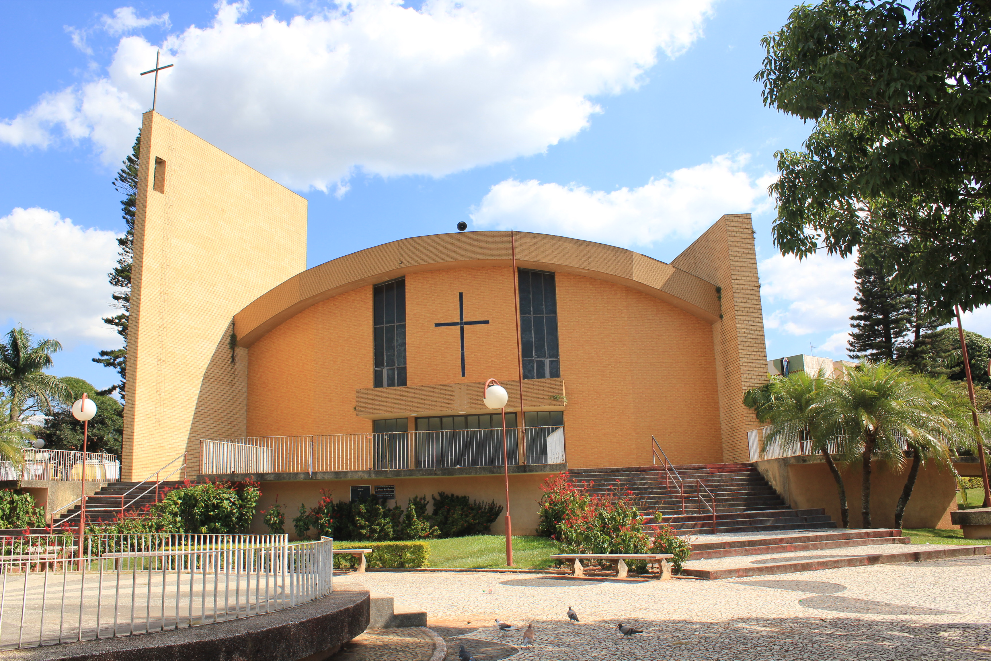 Church